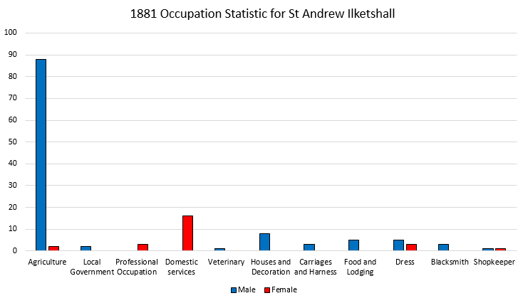 A bar chart showing both male and female 1881 occupational statistic for St Andrew Ilketshall